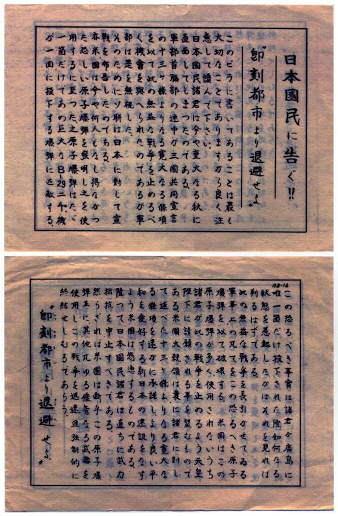 Leaflet dropped on Japan in the bombings of Hiroshima and Nagasaki urging quick surrender.